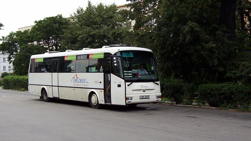 Picture of the bus SOR C10.5.